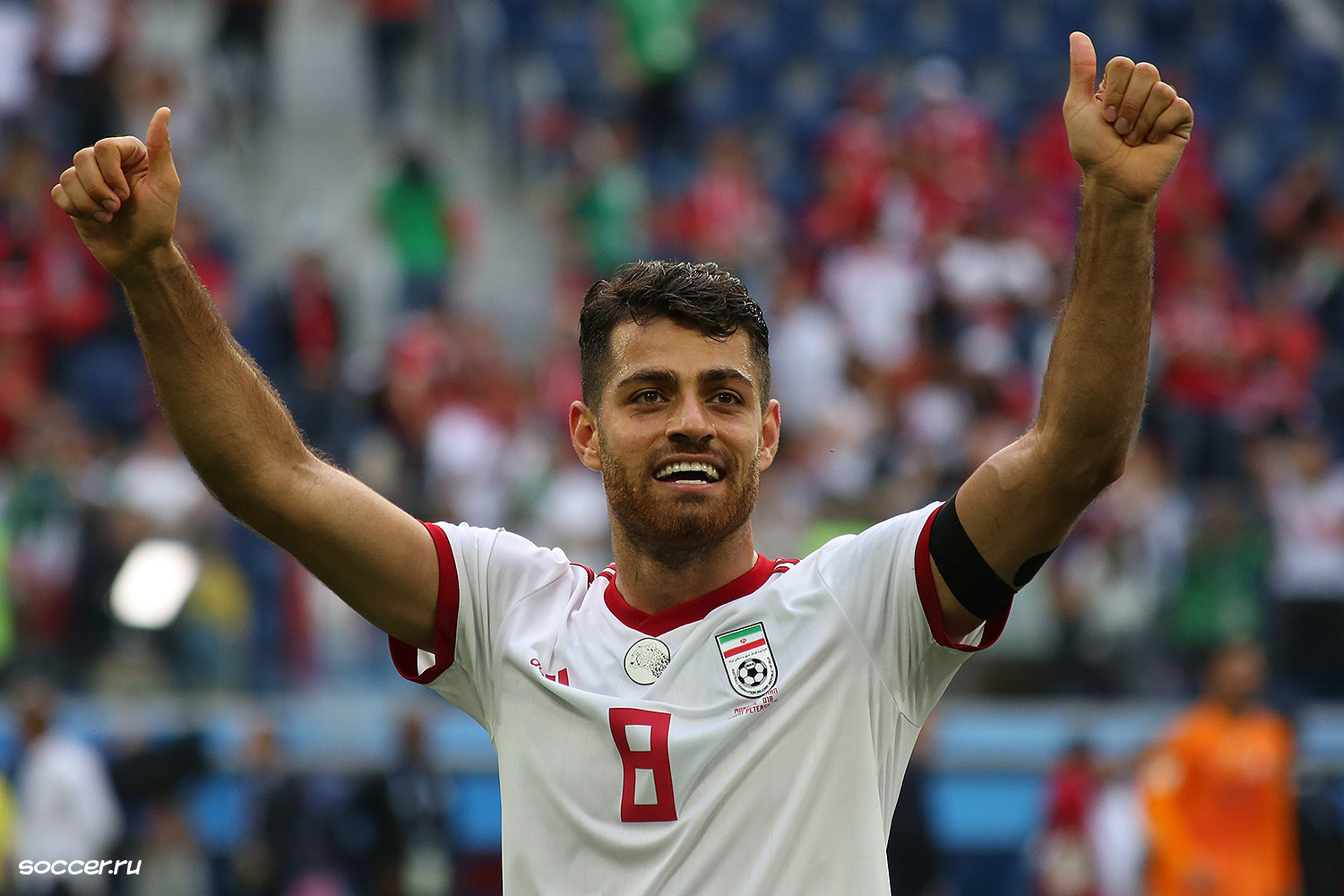 Iran-Morocco match, 2018 FIFA World Cup